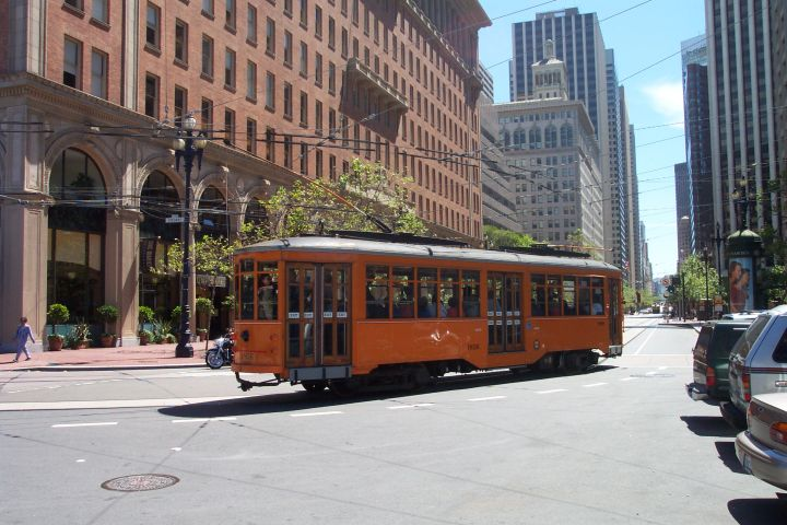 San Francisco F Market line Peter Witt streetcar at foot of Market